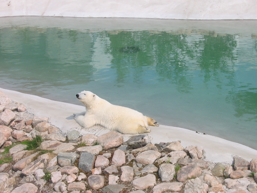 A Polar Bear (Ursus maritimus) at Ranua Zoo in Ranua, Finland